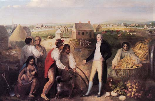 Portrait of Benjamin Hawkins (1754-1818) on his plantation along the Flint River in central Georgia. Hawkins is seen teaching Creek Indians how to use a plow. Behind Hawkins, a Creek Indian carries a basket of corn from the back of a wagon. On the other side, a Creek mother nurses her child. The background is dotted with farm animals and small buildings along the Flint River.